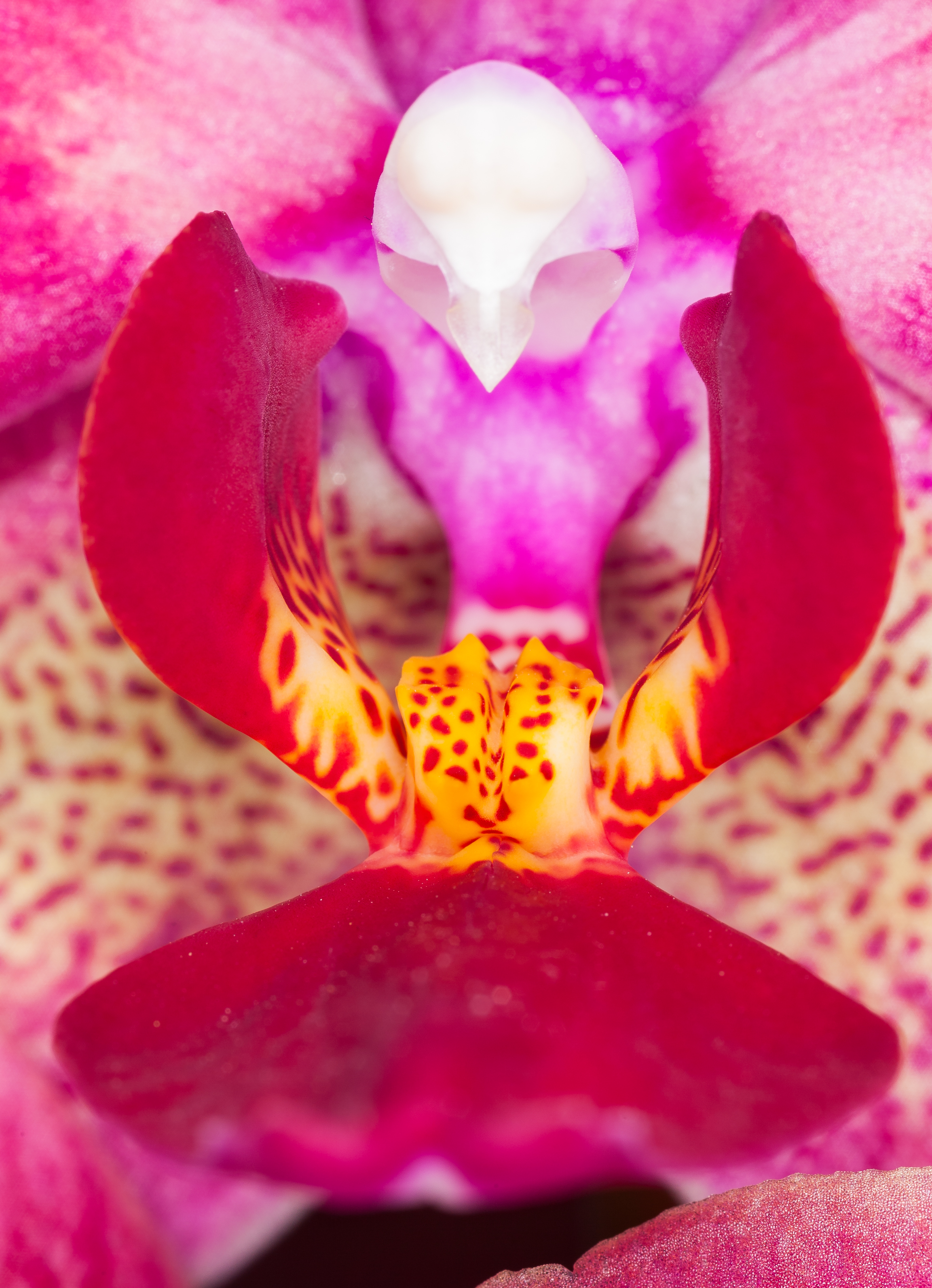 Moth Orchid (Phalaenopsis), Munich, Germany